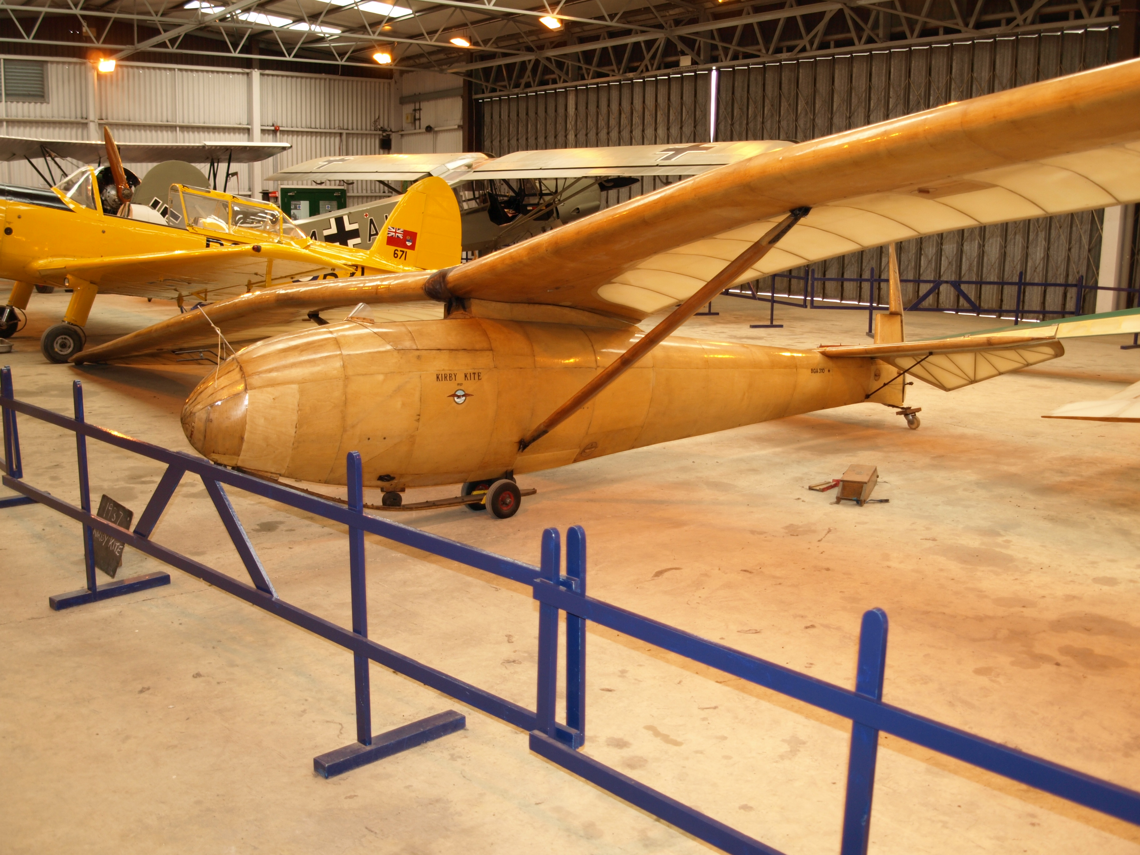 Kirby Kite vintage sailplane (BGA 310) on display at the Shuttleworth Collection, Bedforshire, England.